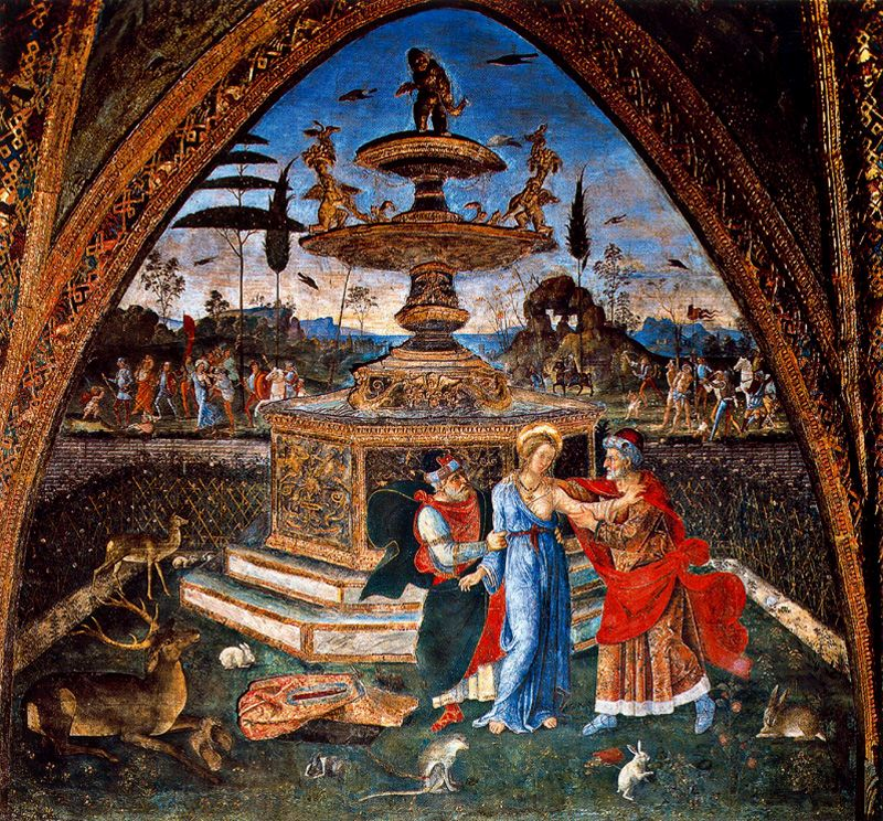 Susanna and the Elders